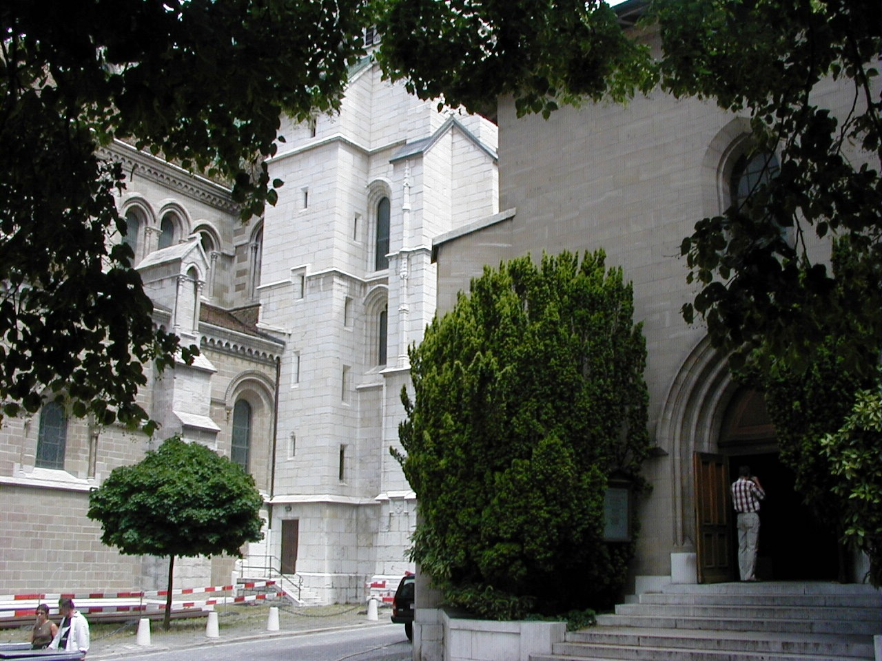 Personal photograph of the Calvin Auditory in the foreground and behind it St. Peter's Cathedral Geneva